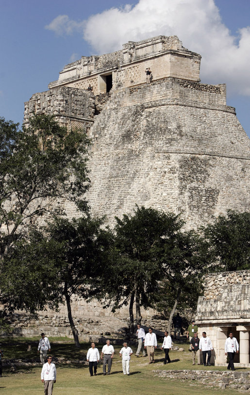 US President George W. Bush and President Felipe Calderon of Mexico participate in a tour Tuesday, March 13, 2007, of the Uxmal ruins. Behind them is the Pyramid of the Magician, a 117-feet high structure, which legend holds was built in a single night by a dwarf boy.